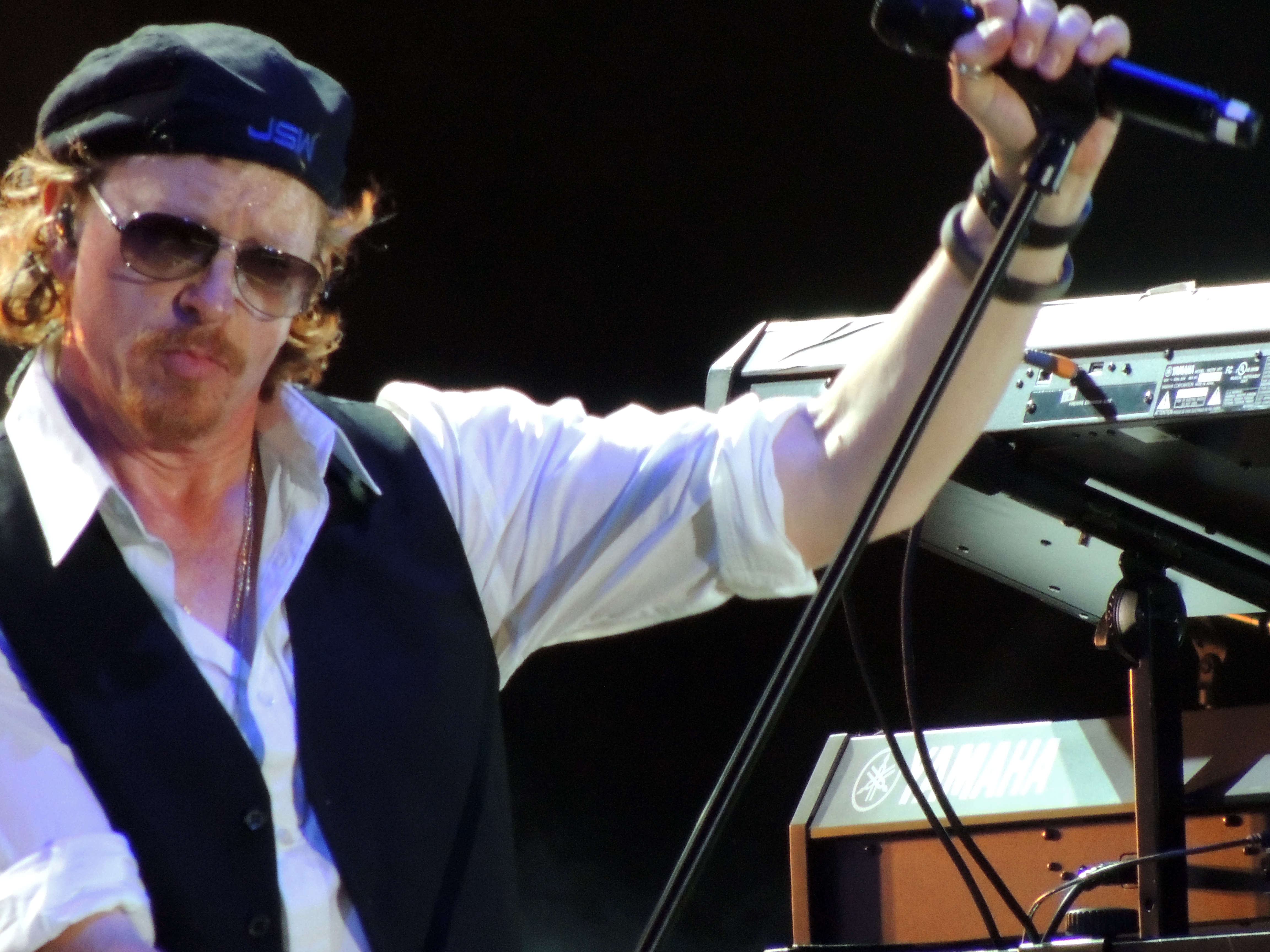 Joseph Williams in Örebro, Sweden July 3, 2013. Toto's 35th Anniversary Tour.